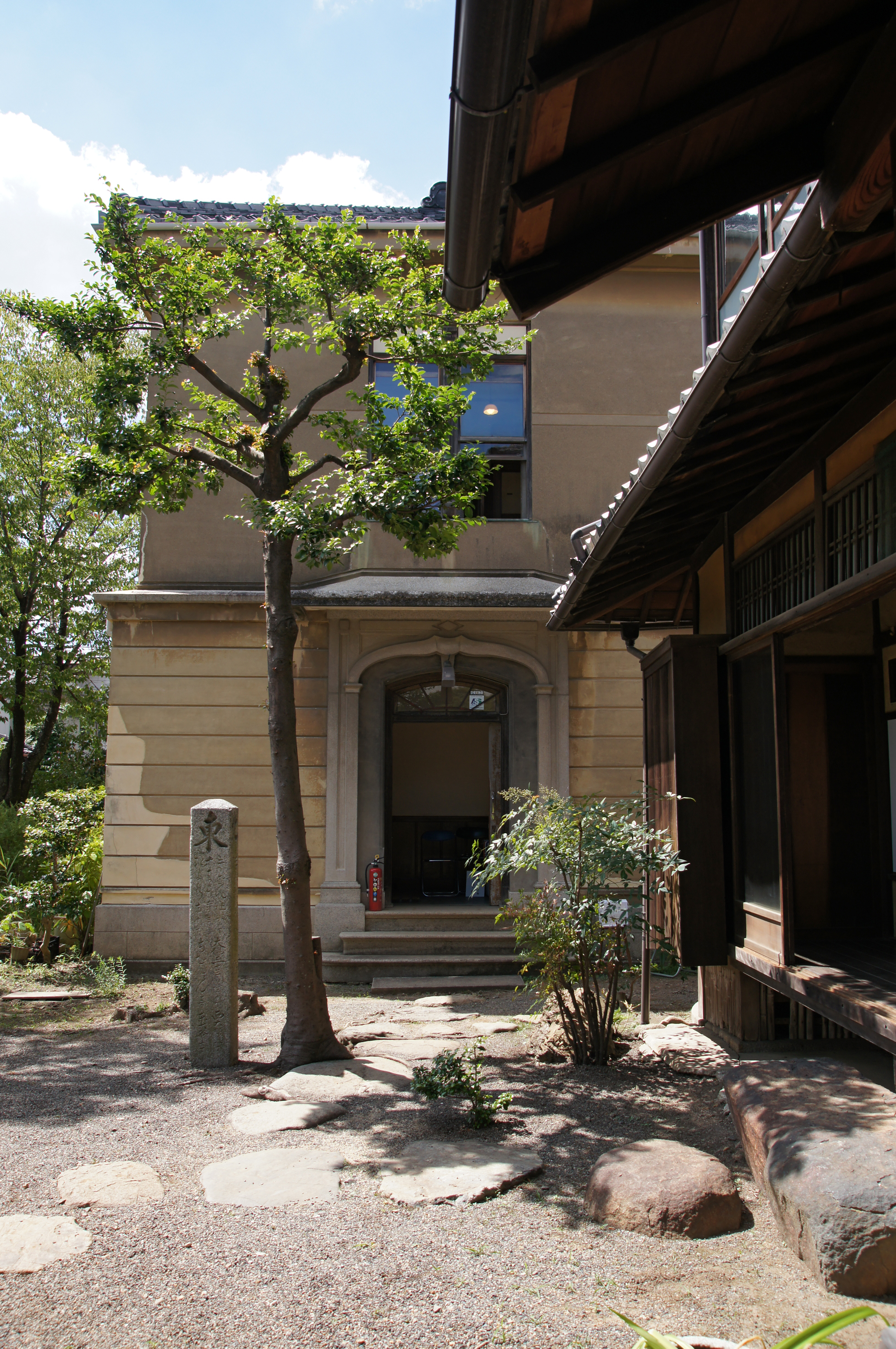 Oukoku Bunko in Kyoto, Kyoto prefecture, Japan.